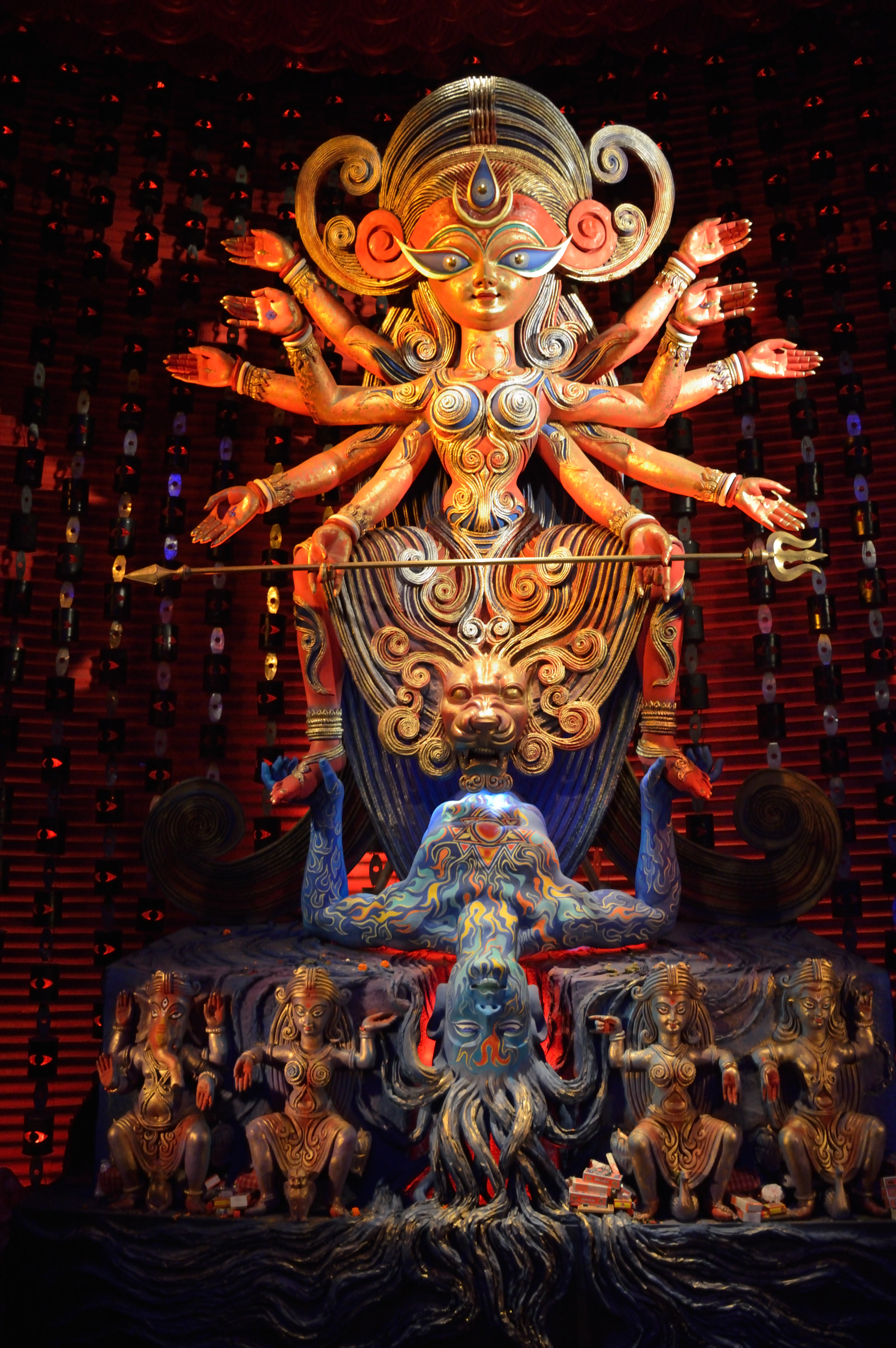 This shot was taken during the Durga Puja festival 2015 at the Chetla Agrani club, Pearymohan Ray road in Kolkata. The 'Magical Love of Shiva-Parvati' - theme-based puja was conceived and created by Sanatan Dinda.